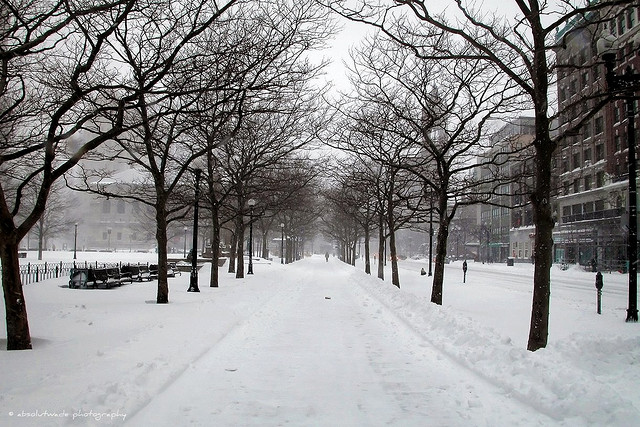 Copley Square after the 2006 North American Blizzard